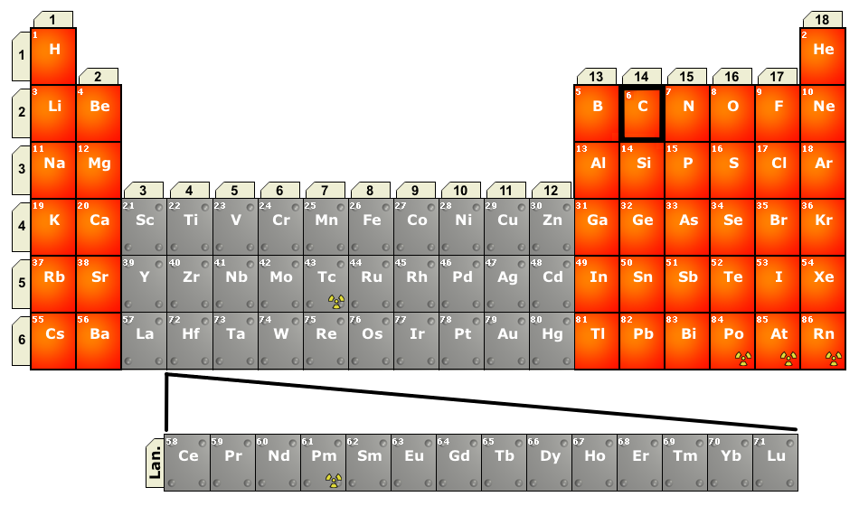 Periodic table of elements of interest in organic chemistry. The table illustrates all elements of current interest in modern organic and organic chemistry, indicating main group elements in orange, and transition metals and lanthanides (Lan) in grey. Derived via cropping (using GraphicConverter9), with deletion of radioactive elements/actinides from a complete table of same emphasis by SimonGjer at da.wikipedia,2009-06-09, File DPS_Main_Red.png, created as his own work and released into the public domain by that author. Drawing created for "Organic Chemistry" article at en.wikipedia, by delta0349. [Le Prof]